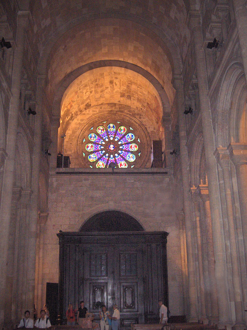 Nave and rose window of the Cathedral of Lisbon, Portugal